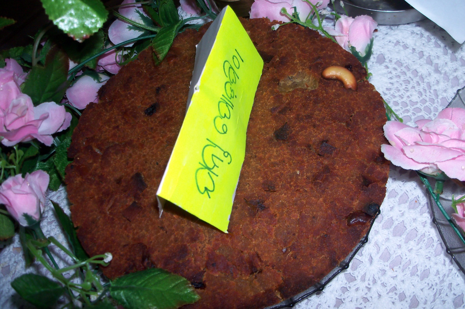 ଓଡ଼ିଆ: ରଜ ପାଇଁ ଯନ୍ତା ପୋଡ ପିଠା This media file is uploaded with Odia loves Wikipedia